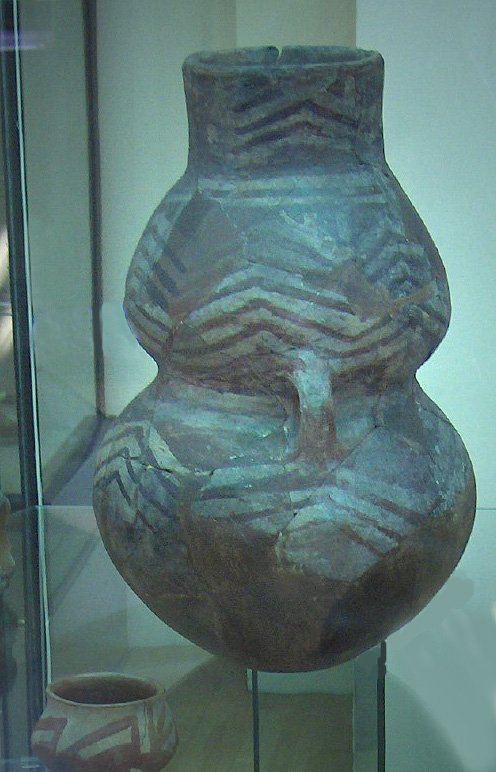 Painted vessel; baked clay; found at Hacilar; first half of 5th millennium BC; Museum of Anatolian Civilizations, Ankara, Turkey